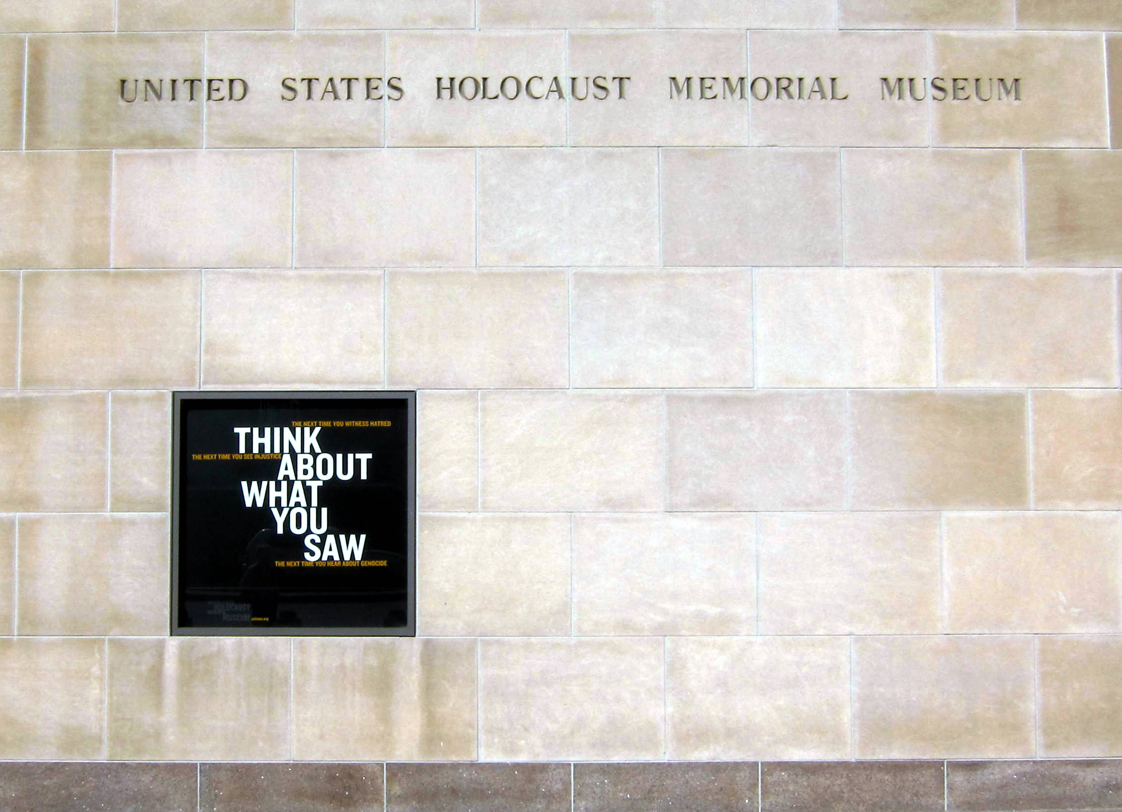 Exterior of the United States Holocaust Memorial Museum, located south of the National Mall, on 14th Street, S.W., in Washington, D.C.